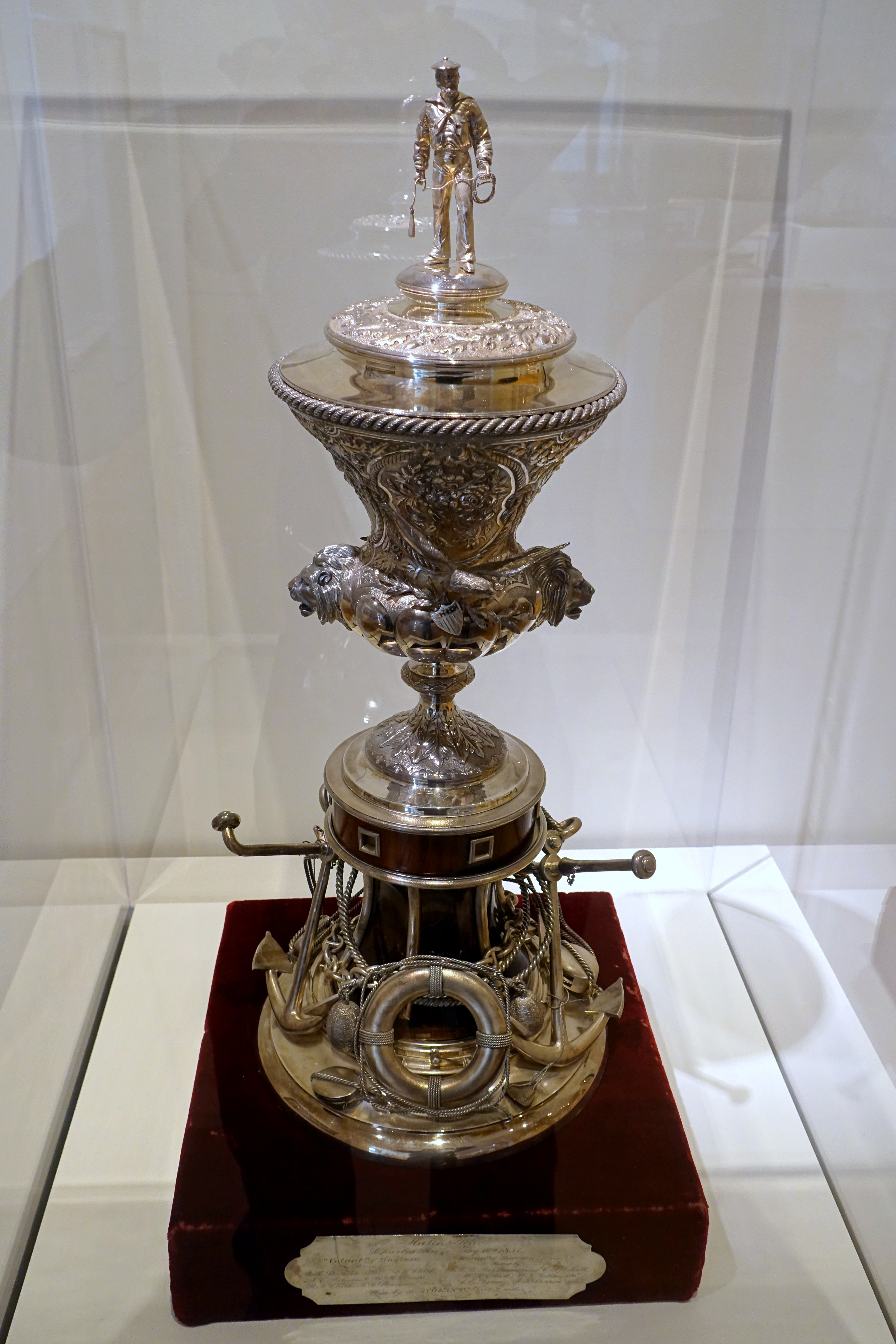 Exhibit in the Peabody Essex Museum - Salem, Massachusetts, USA.